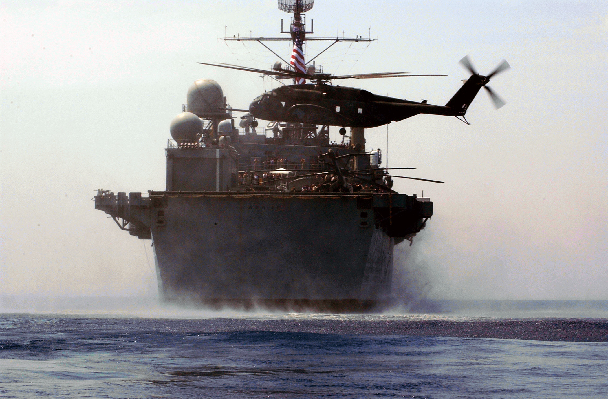 Mediterranean Sea (Jun. 11, 2003) - An MH-53E Sea Dragon assigned to the "Black Stallions" of Helicopter Combat Support Squadron Four (HC-4) stirs up the sea with the power of its rotors as it prepares to land on the deck of the command ship USS La Salle (AGF 3). The "Black Stallions" deliver passengers, mail and cargo to ships deployed in the Mediterranean Sea. The largest of the Navy's helicopters, the MH-53E Sea Dragon can carry up to 55 troops or a 16-ton payload 50 nautical miles. La Salle is the Sixth Fleet flagship, and during Operation Iraqi Freedom (OIF) was the platform for coordination of air strikes and sorties from ships in the Mediterranean Sea to targets in Iraq. U.S. Navy photo by Chief Journalist Monica Hallman. (RELEASED)